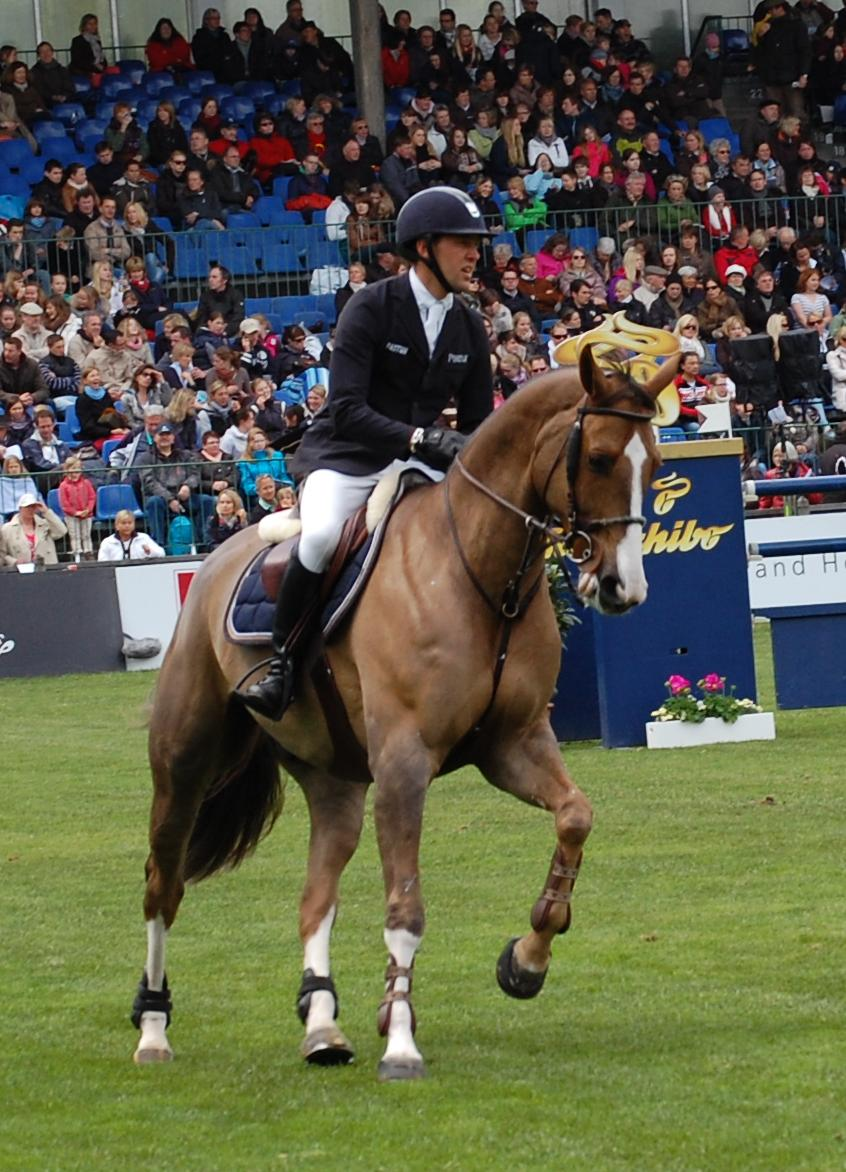 French rider Simon Delestre with Napoli du Ry, "Championat von Hamburg", CSI 5* Hamburg 2012